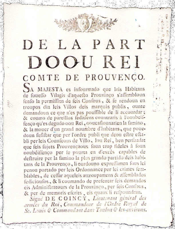 Poster in Occitan language from the French Revolution period